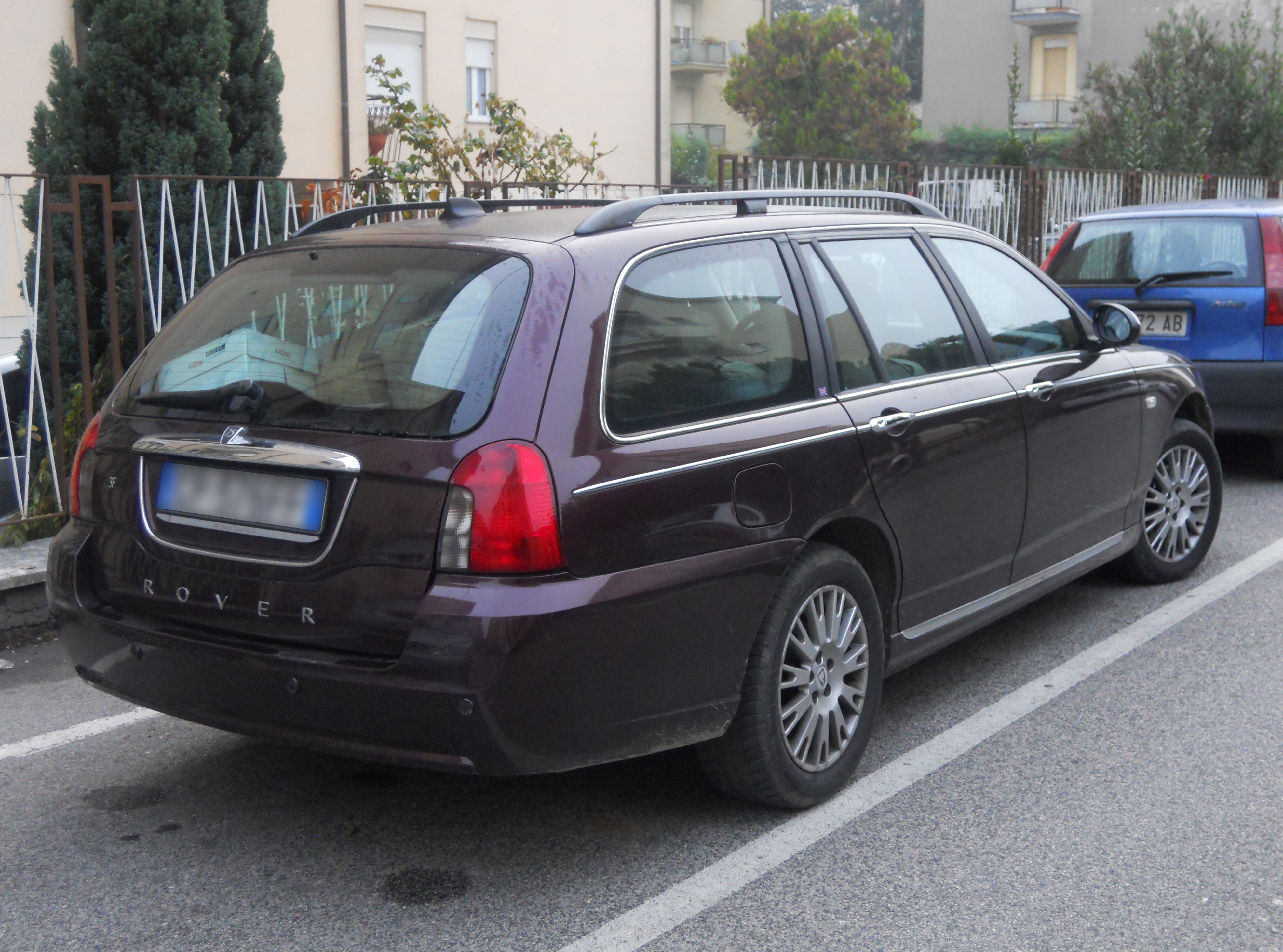 A post-facelift Rover 75 Tourer in Rieti, Italy